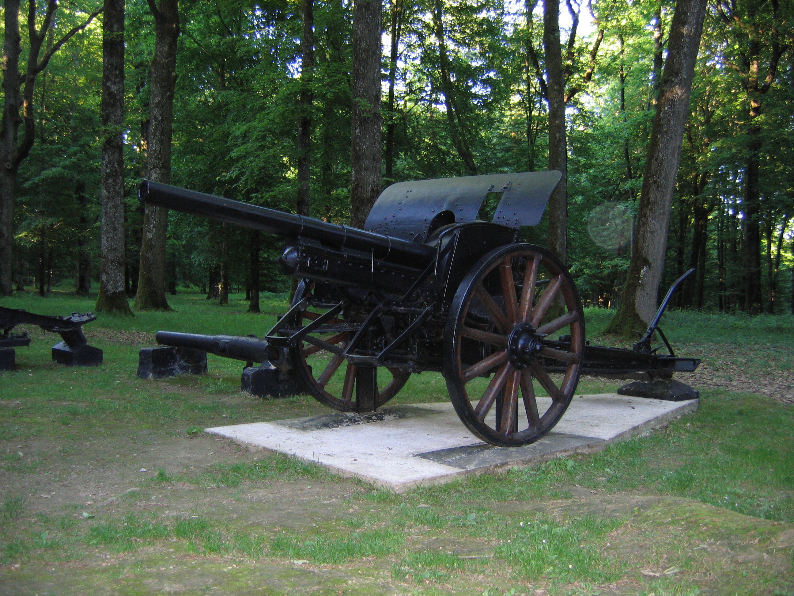 Gun around the Marine Memorial of Belleau Wood, France.